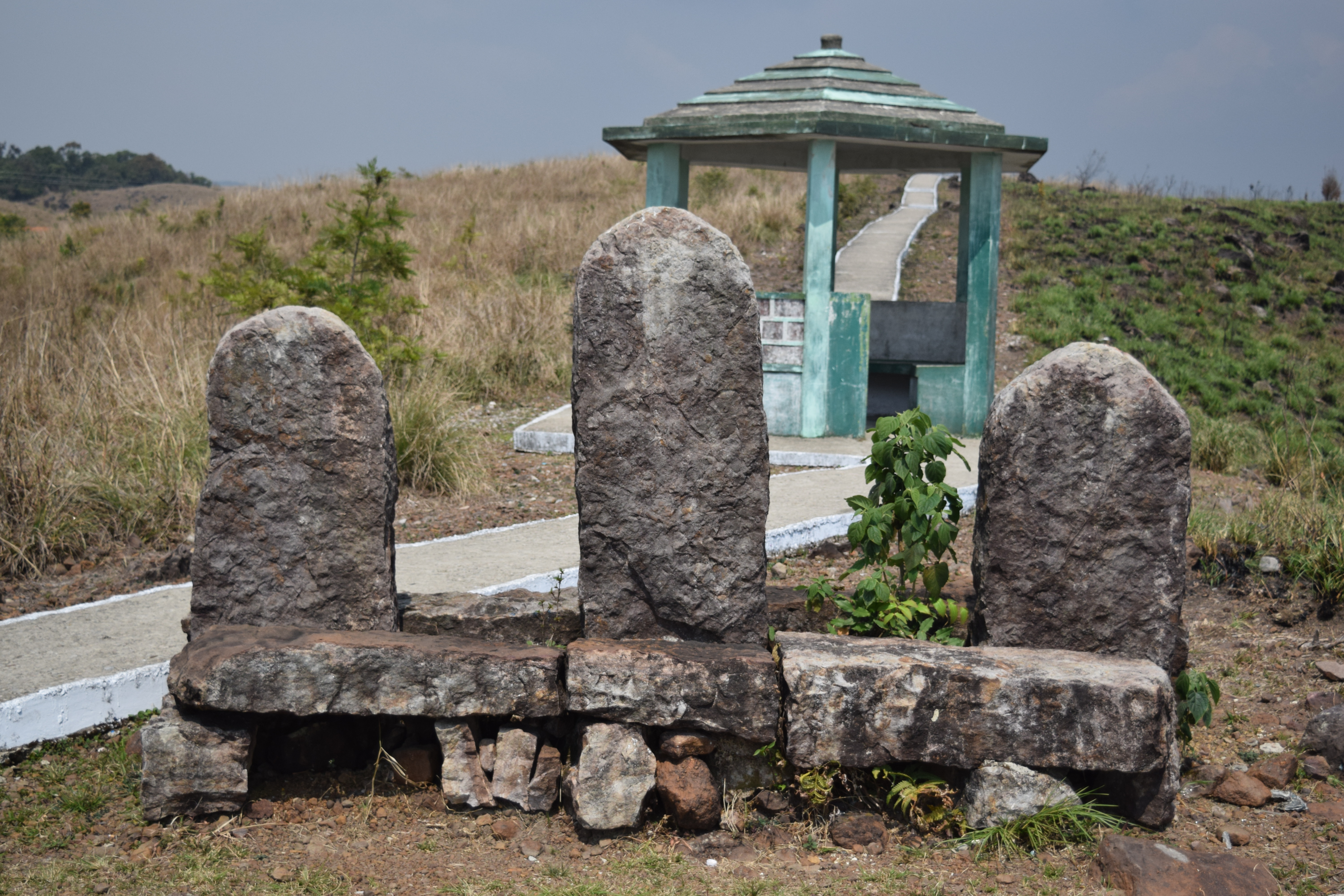 Traditional Khasi monument to honour ancestors. The erect mounds represent male ancestors, while the sleeping mounds represent female ancestors. This was present in the Eco Park, near Cherrapunji.